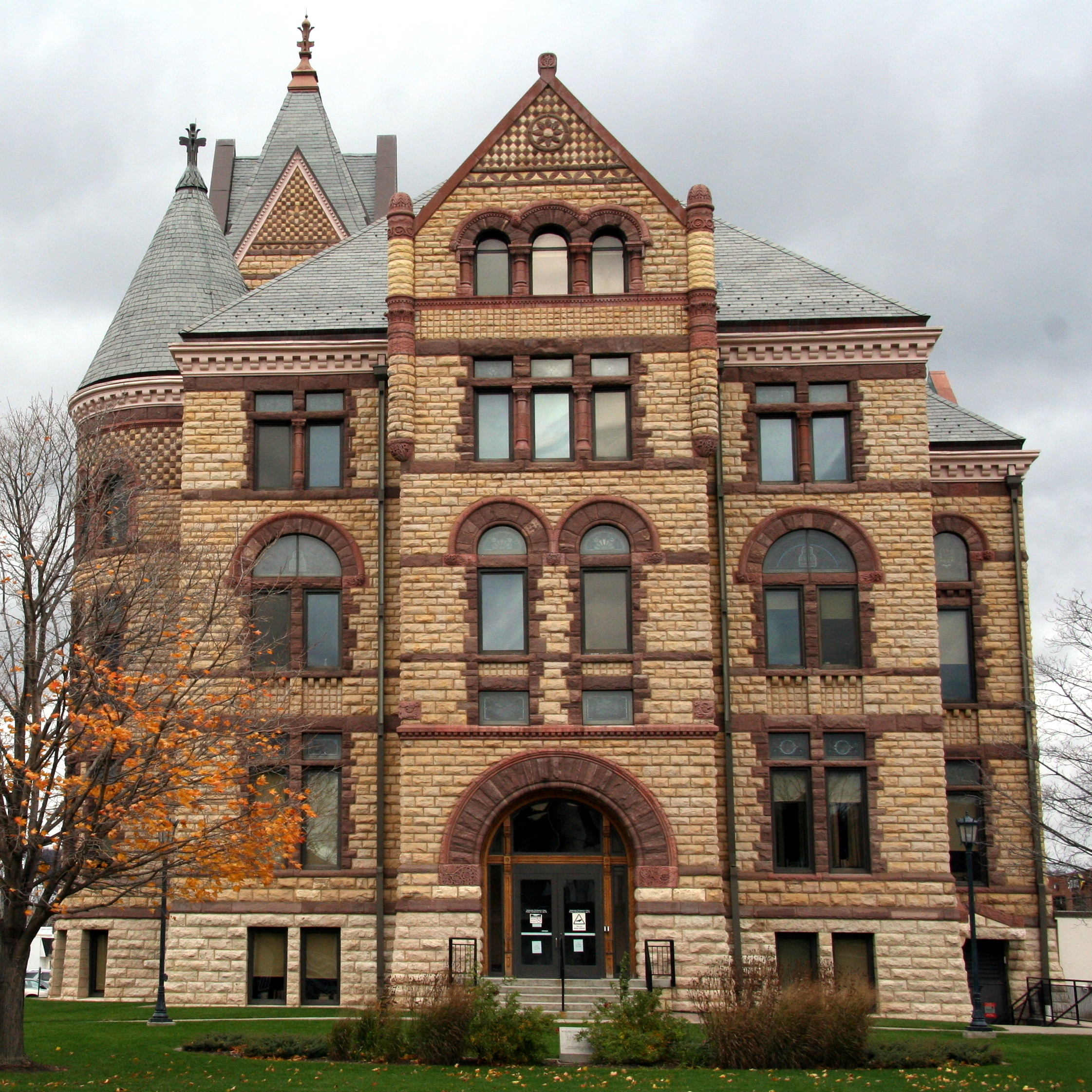 Winona County Courthouse as seen from Fourth Street in Winona, Minnesota.